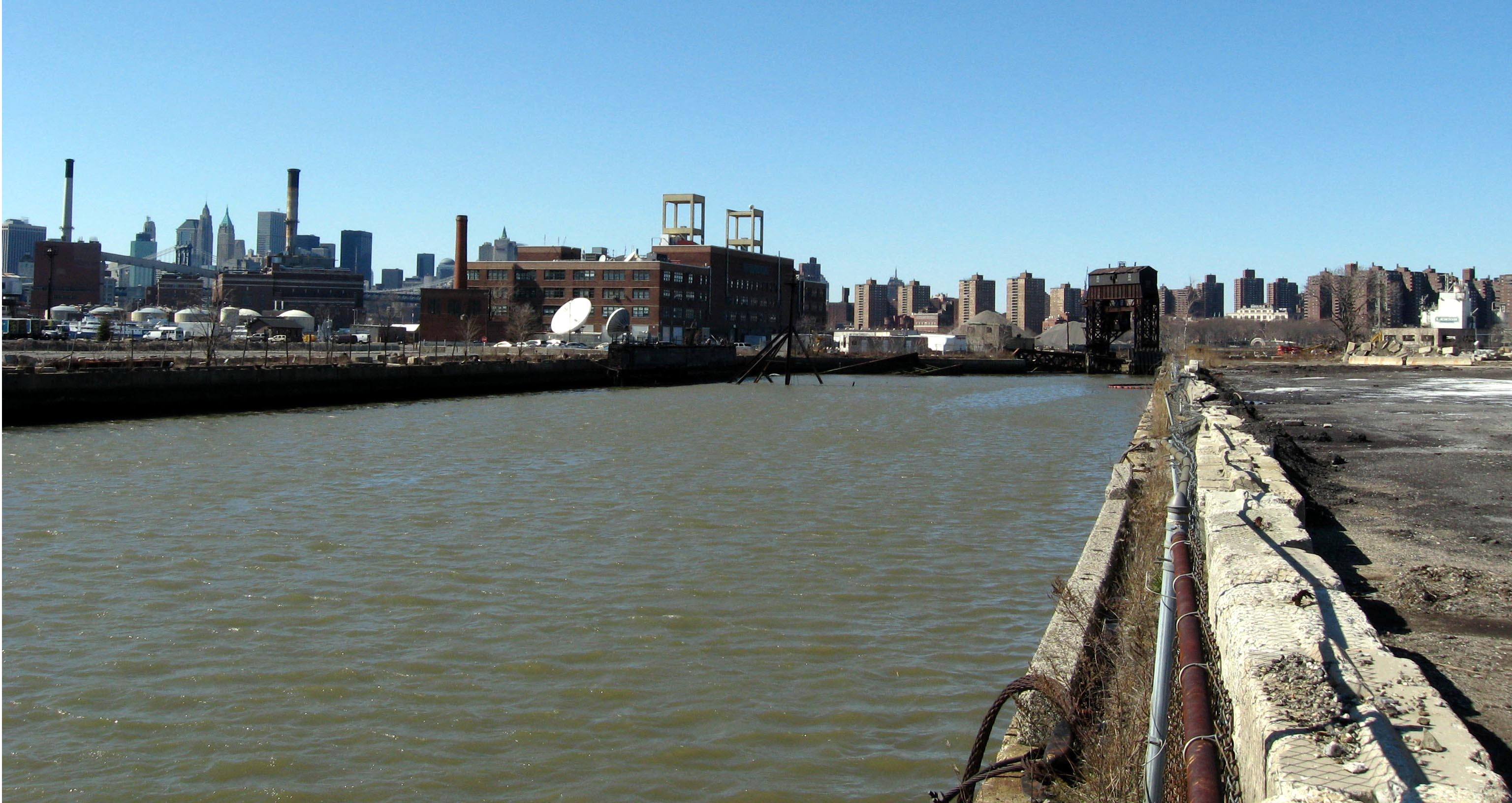 Looking northwest along Wallbout Channel, east end of Brooklyn Navy Yard. I took this picture from the west side of Kent Avenue looking northwest towards the former artificial island on a sunny early afternoon on late winter.